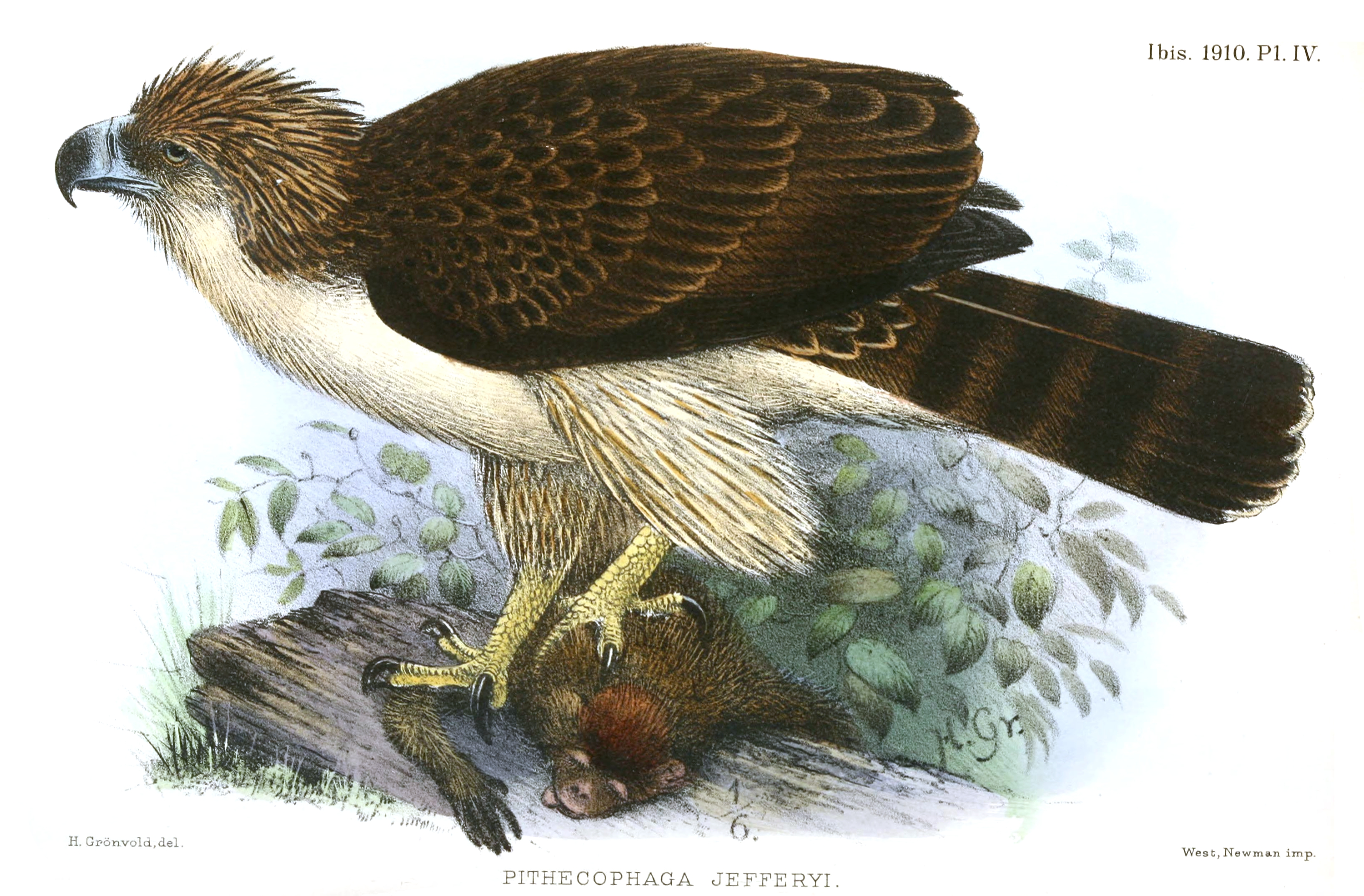 Pithecophaga jefferyi